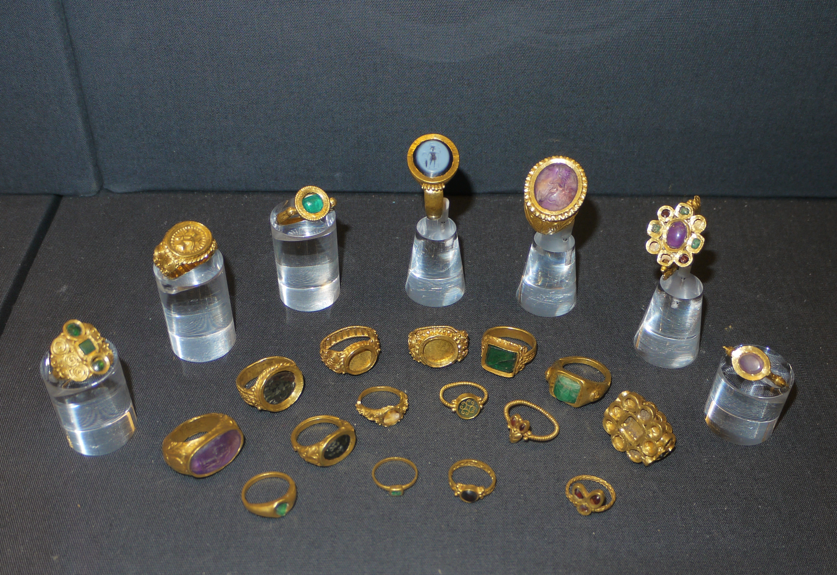 Photo of the rings found in the Thetford Hoard on display at the british museum